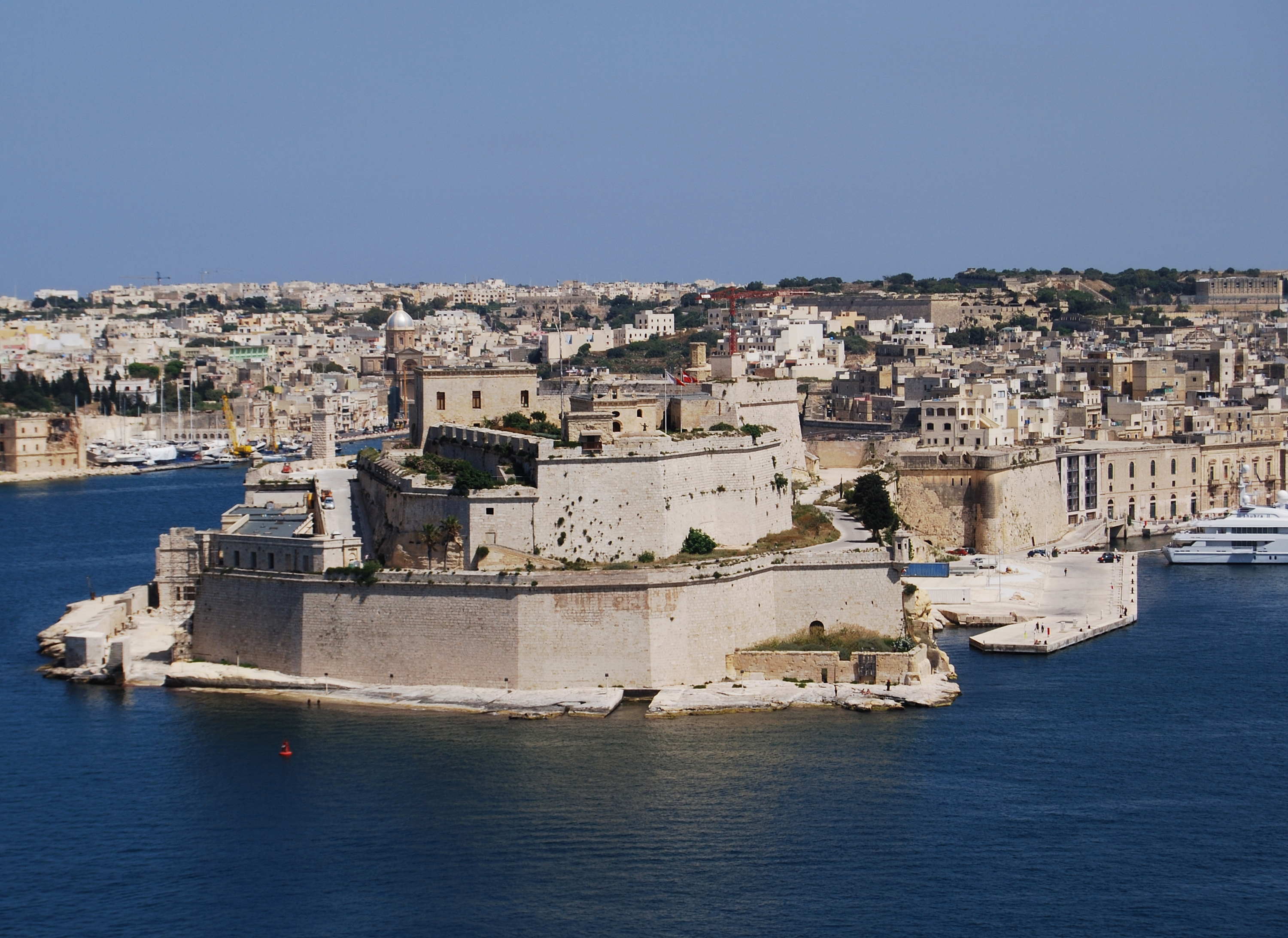 Fort St. Angelo, Malta. Picture taken from capital Valletta.